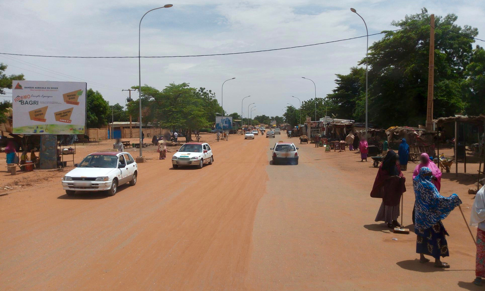 Avenue des Aménokal as the boundary road between the quarters of Banifandou II (left) and Route Filingué (right), Niamey.